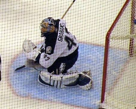 Then-Tampa Bay Lightning goaltender John Grahame tends goal against the Ottawa Senators in the 2006 National Hockey League quarterfinals.